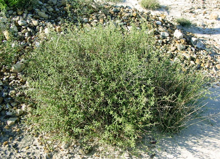 Frankenia johnstonii Zapata County, Texas, United States